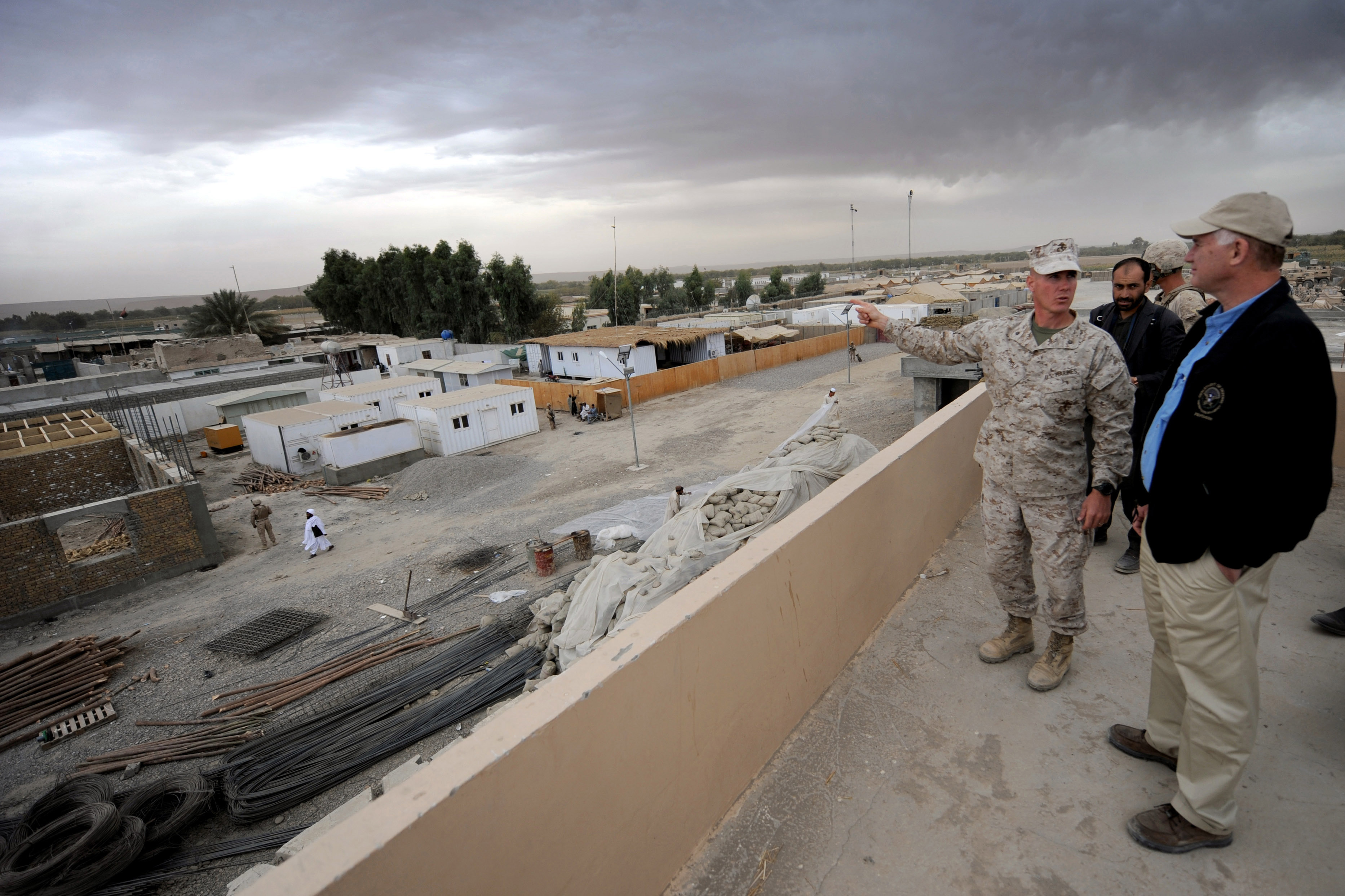 Commander of Task Force 33 Lt. Col. Holt shows Deputy Secretary of Defense William J. Lynn III the progress that is being made in the town of Nawa in the Helmand province of Afghanistan on Oct. 28, 2010.